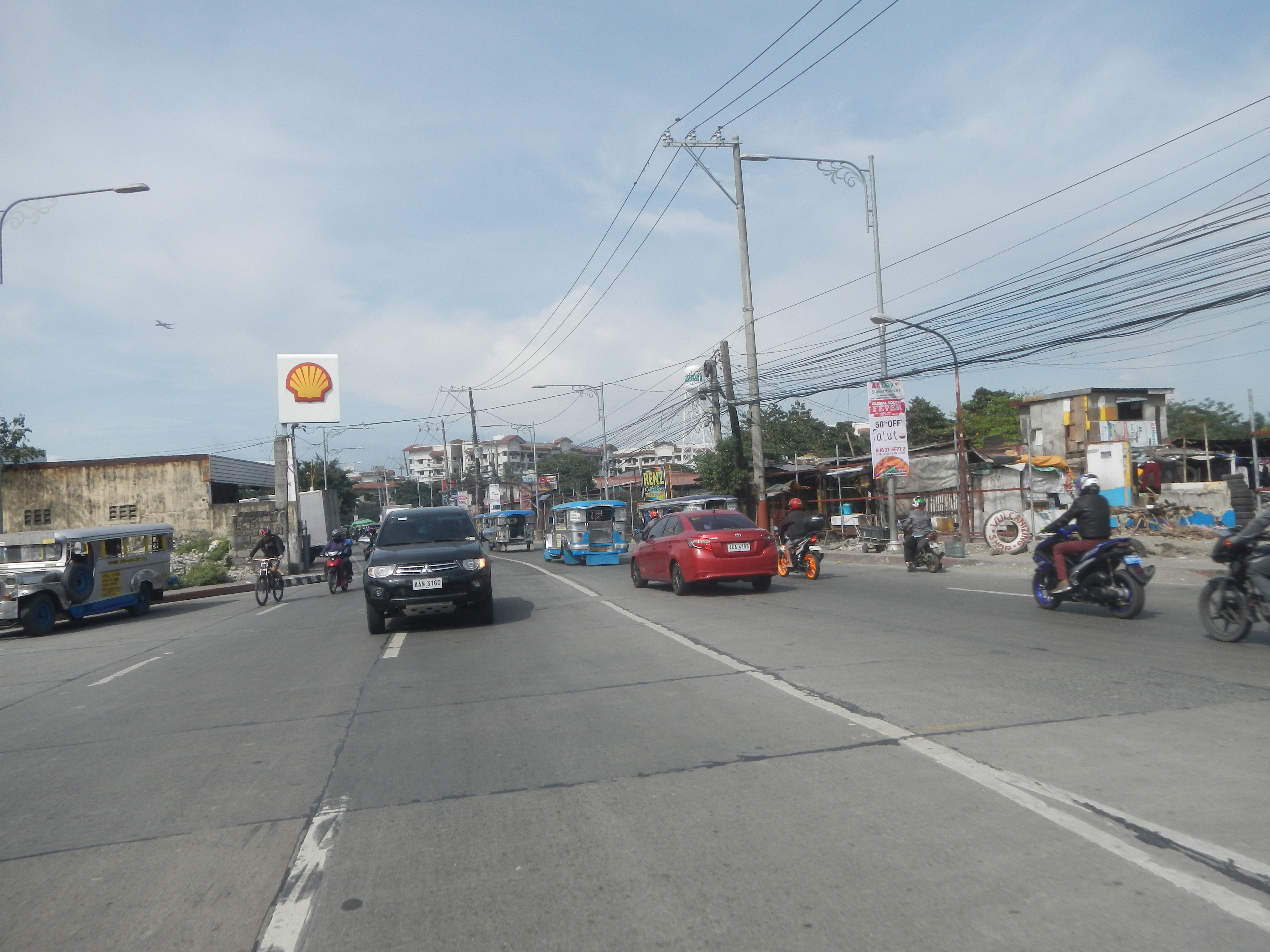 Barangays Barangays Daniel Fajardo (Poblacion) 14°28'50"N 120°58'53"E Pulang Lupa Uno 14°28'16"N 120°58'36"E Pulanglupa Dos 14°27'41"N 120°59'12"E from Manuyo Uno (Las Piñas) 14°28'52"N 120°59'9"E Las Piñas along Elpidio Quirino Avenue to Diego Cera Avenue to Roxas Boulevard, Radial Road 2 from Baclaran LRT station (Note: Judge Florentino Floro, the owner, to repeat, Donor Florentino Floro of all these photos hereby donate gratuitously, freely and unconditionally Judge Floro all these photos to and for Wikimedia Commons, exclusively, for public use of the public domain, and again without any condition whatsoever).